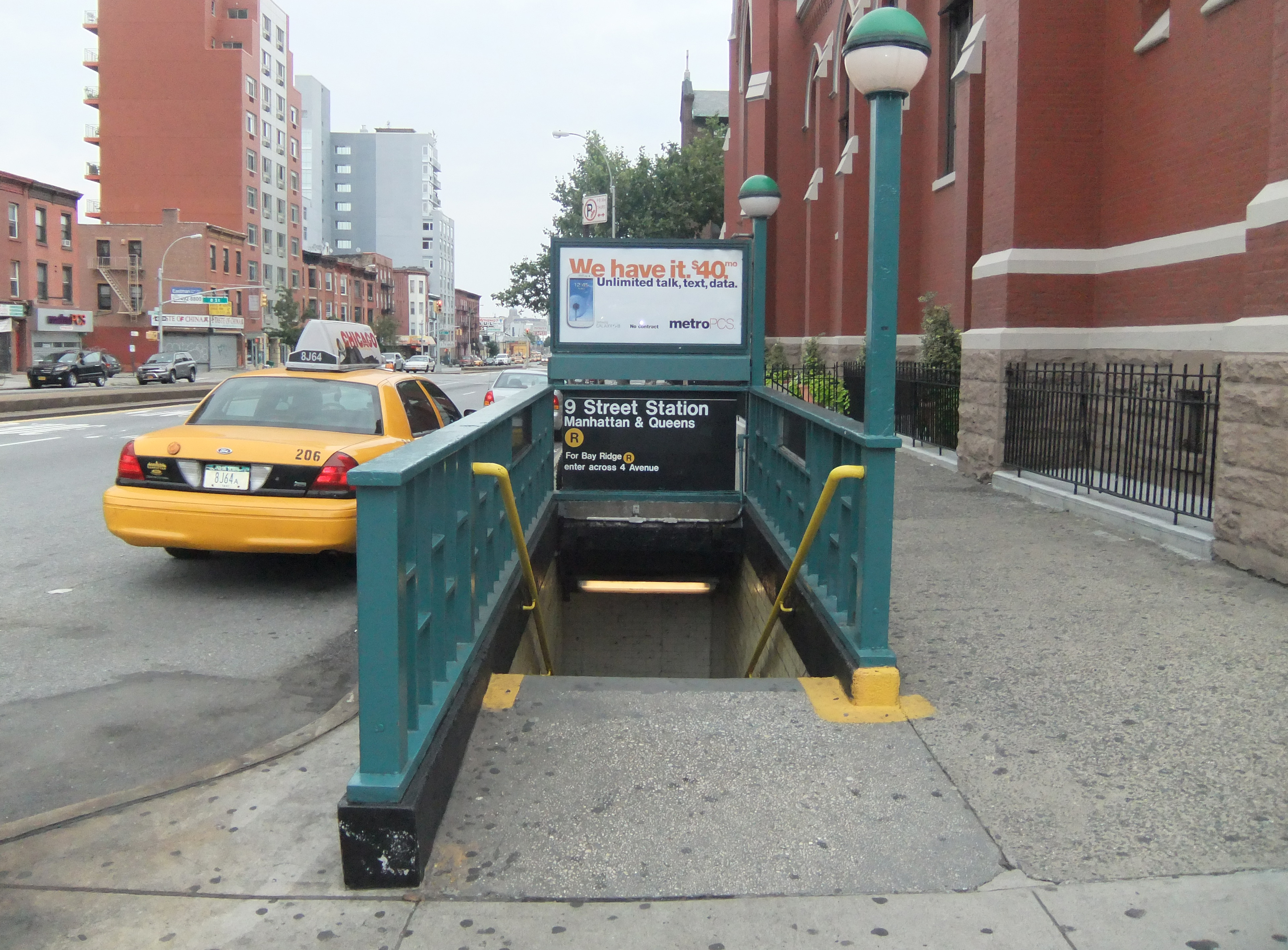 Stairs from NE corner of 4th Ave/9th St to the uptown 9th St BMT platform.